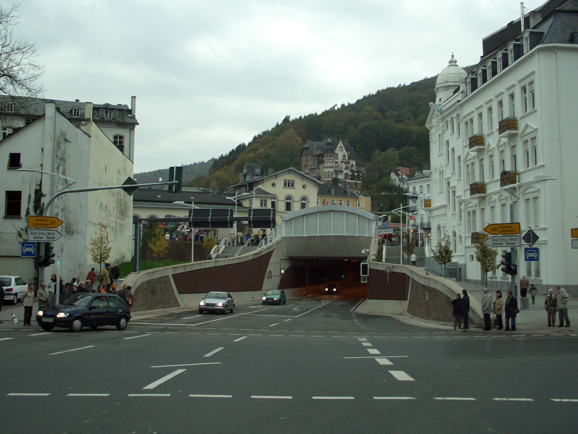 Malbergtunnel in Bad Ems